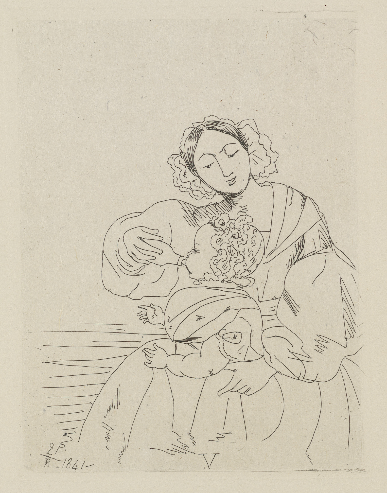 An etching showing the infant Victoria, Princess Royal, sitting in her nurse's lap and being fed with a bottle. After RCIN 980024.d. She is shown facing left in profile and is wearing a frilled bonnet. Inscribed below: V. Inscribed lower left: 21/8 – 1841